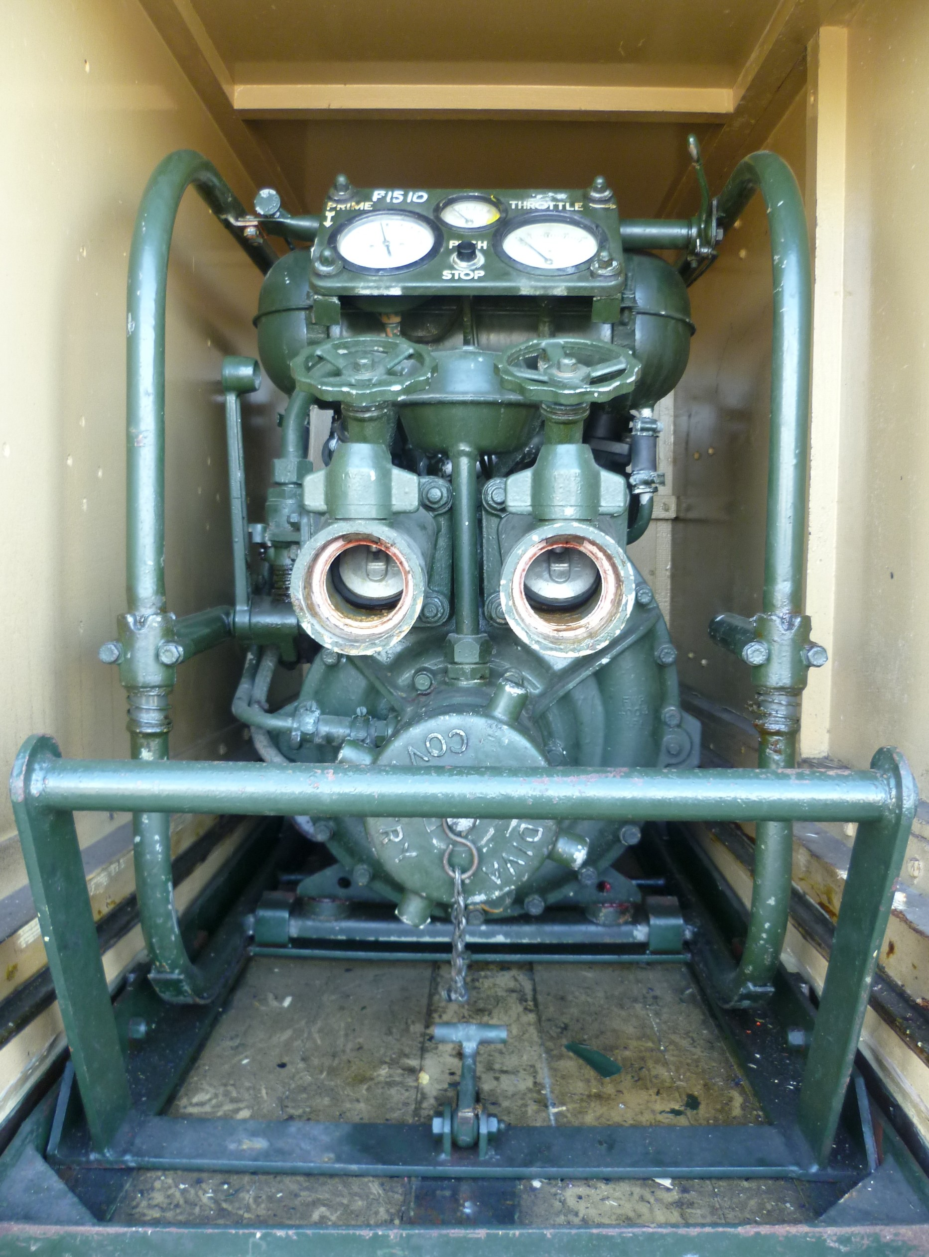 On a Green Goddess (1955) maintained by the International Fire & Rescue Association in Dunfermline, Scotland